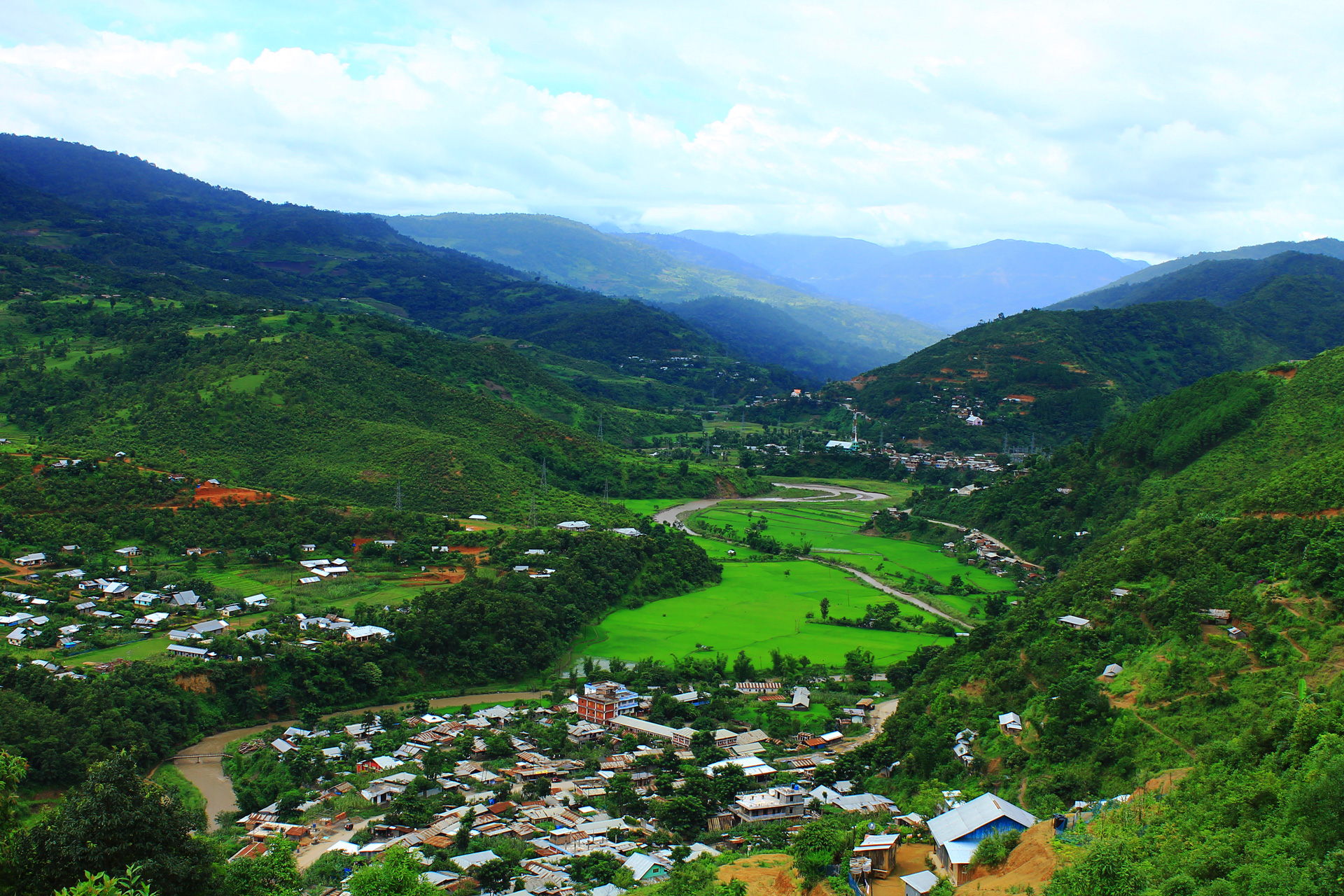 New karong